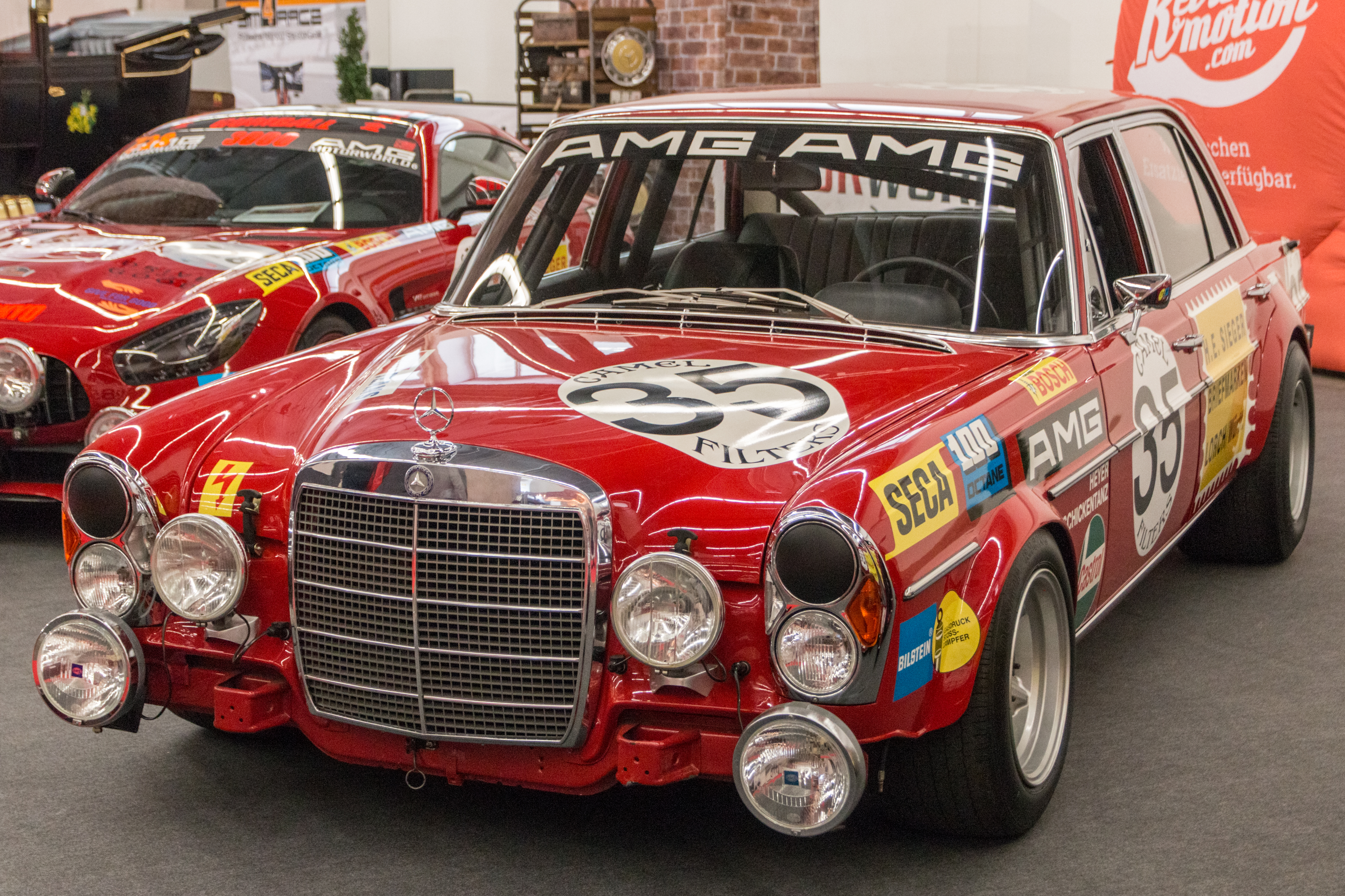 1971 Mercedes-Benz 300 SEL 6.8 AMG (W 109)